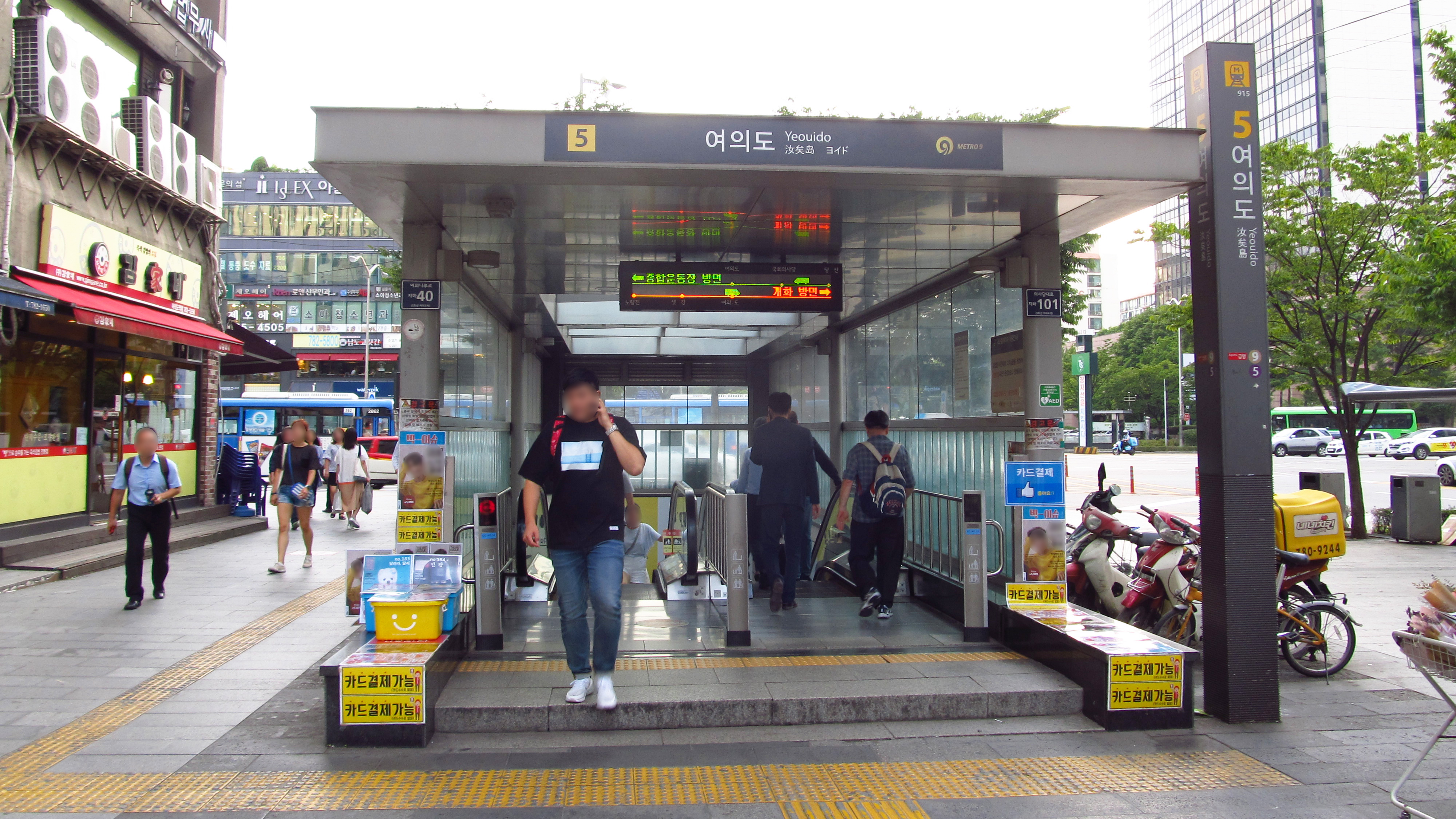 The entrance no.5 to Yeouido Station on Seoul Subway Line 9 and Line 5 in Yeongdeungpo-gu, Seoul, Republic of Korea(South Korea)